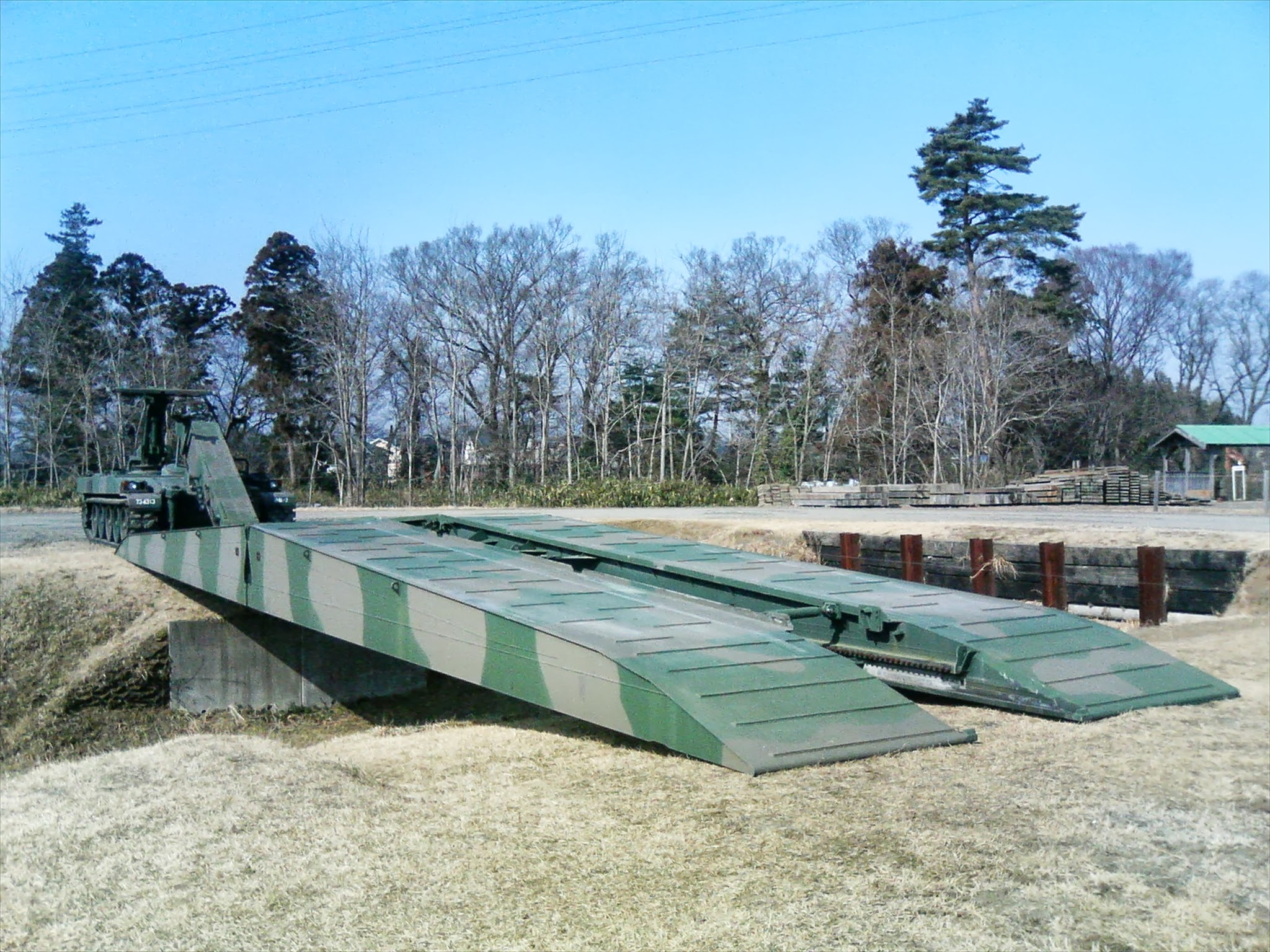 Title ９１式戦車橋P1000007.JPG Album 装備 ９１式戦車橋